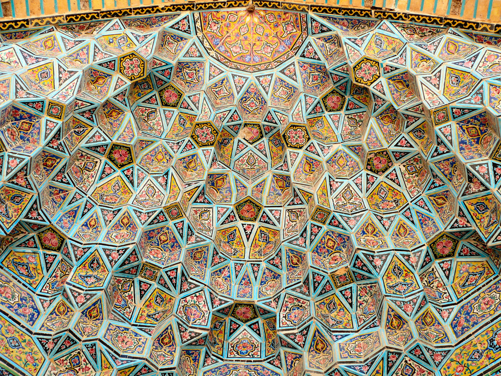 A Muqarna decorated vault at the Nasr ol Molk Mosque in Shiraz.